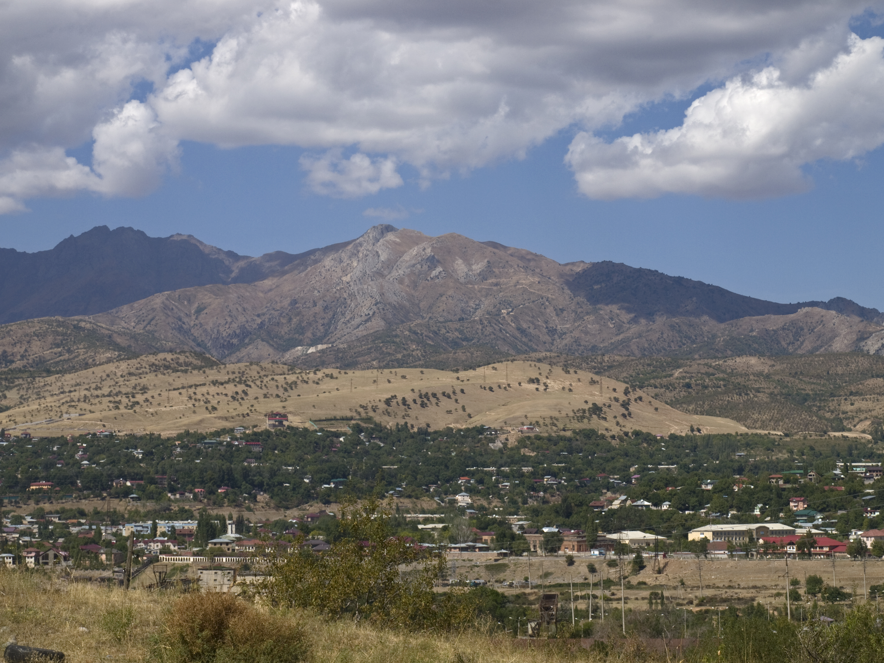 Panorama of the settlement of Chorvoq from Chatkal range (south of the settlement)